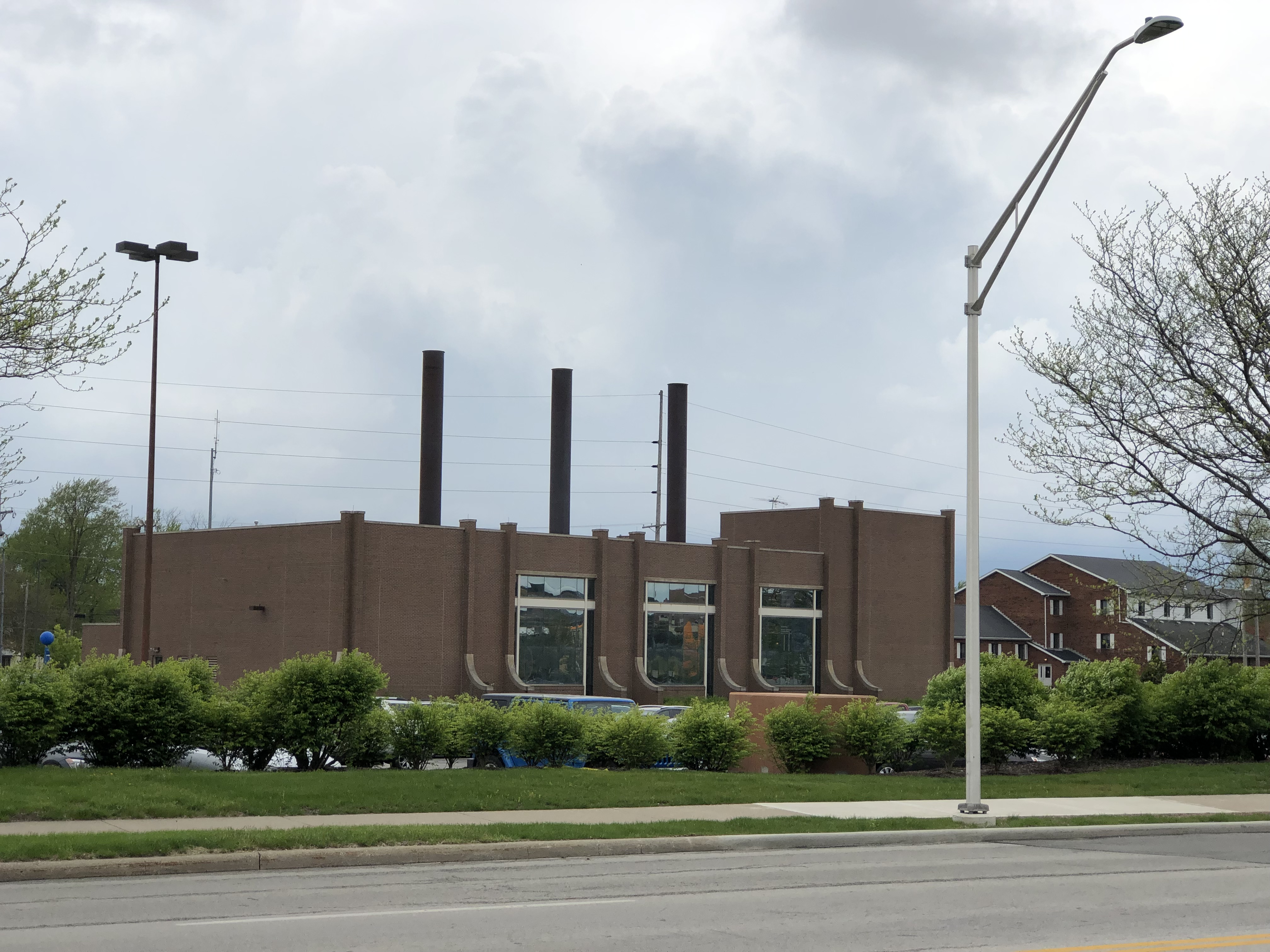 The heating plant at BGSU.